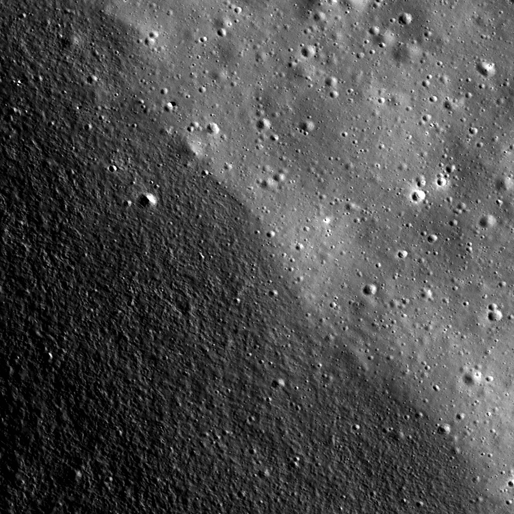 Contact between Archimedes crater wall (bottom left) and floor (upper right). The floor is smooth and relatively flat compared to the sloped and rough elephant skin textured crater wall. LROC NAC M119883761, image width is 800 m [NASA/GSFC/Arizona State University].